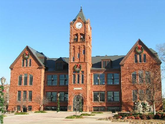 University of Central Oklahoma, Old North